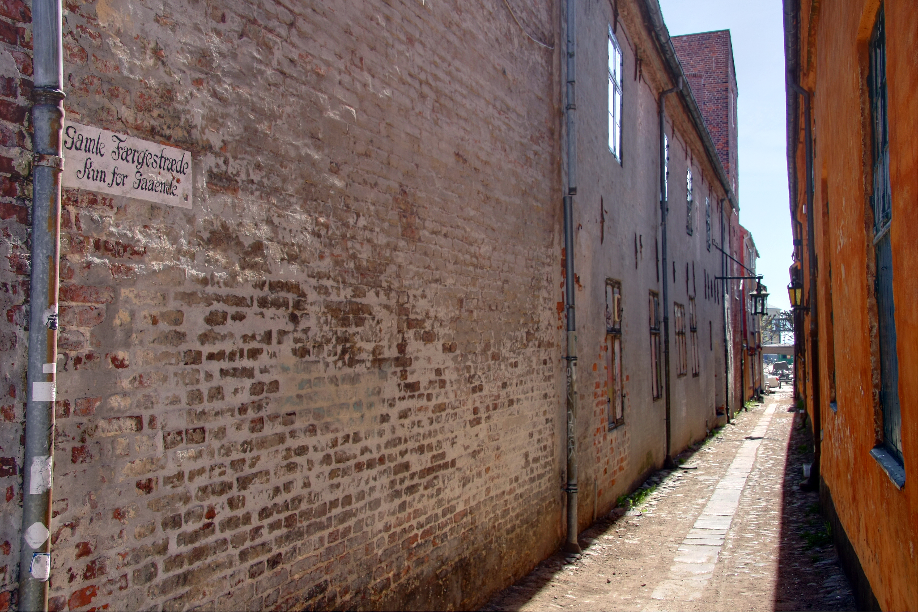 Gamle Færgestræde, an old alley in Helsingør, Denmark.